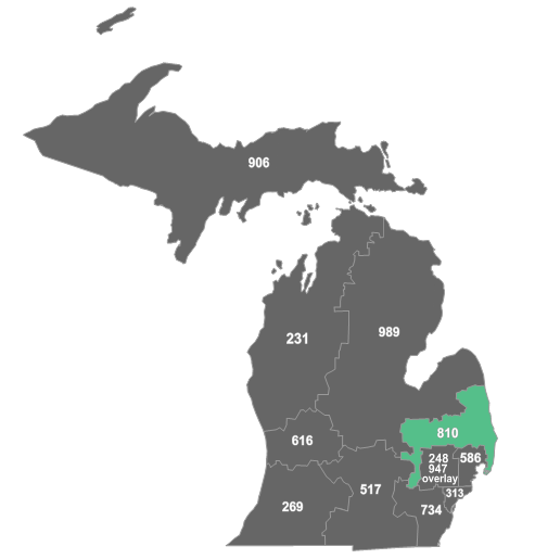 Area code map of Michigan highlighting the region covered by area code 810.